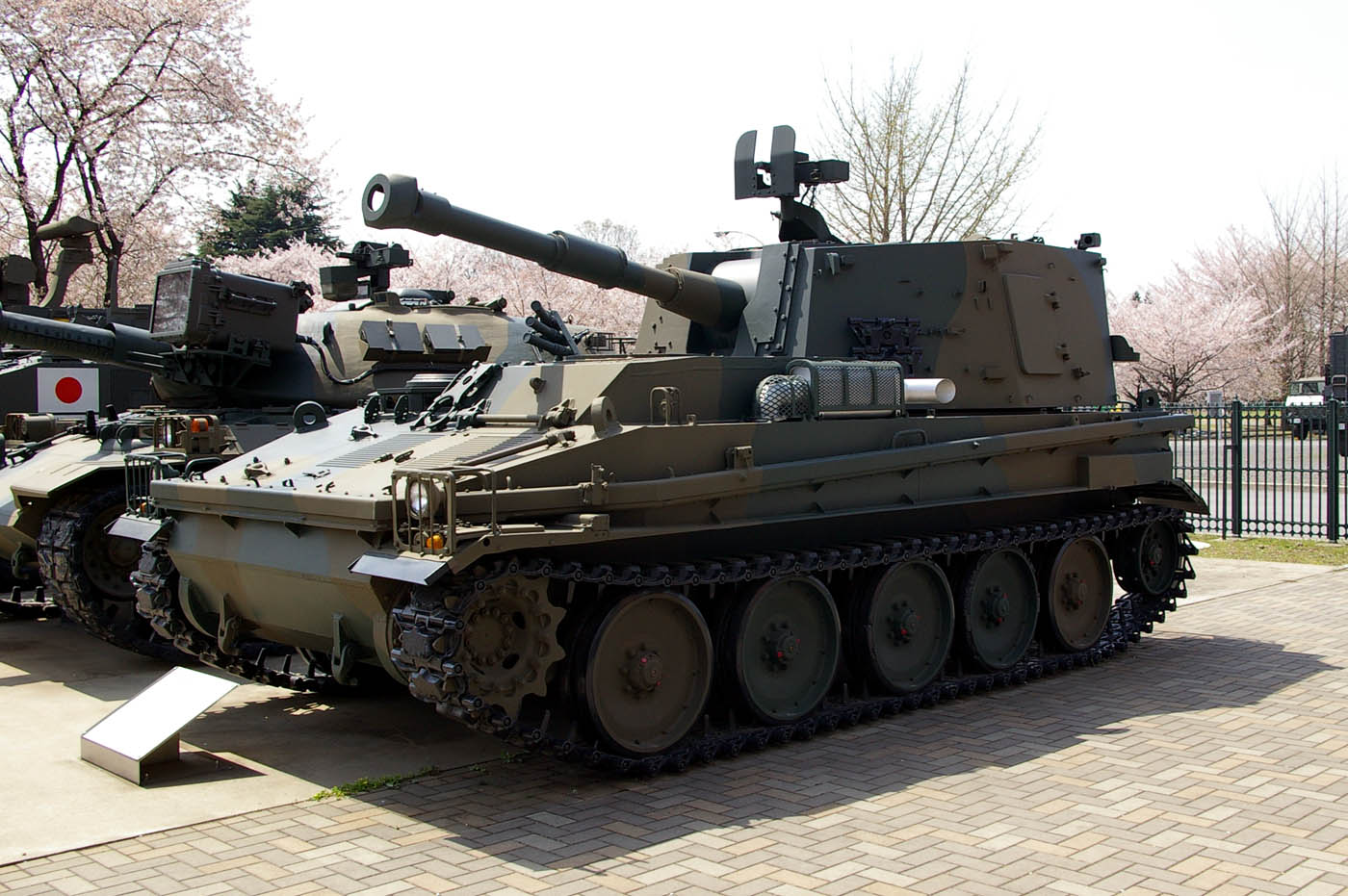 Taken by los688,5-Apr-2008,JGSDF Type 75 155 mm Self-Propelled Howitzer,JGSDF Public Information Center.PD-self. ja:2008年4月5日、投稿者撮影。74式自走105mmりゅう弾砲。陸上自衛隊朝霞駐屯地陸上自衛隊広報センター。